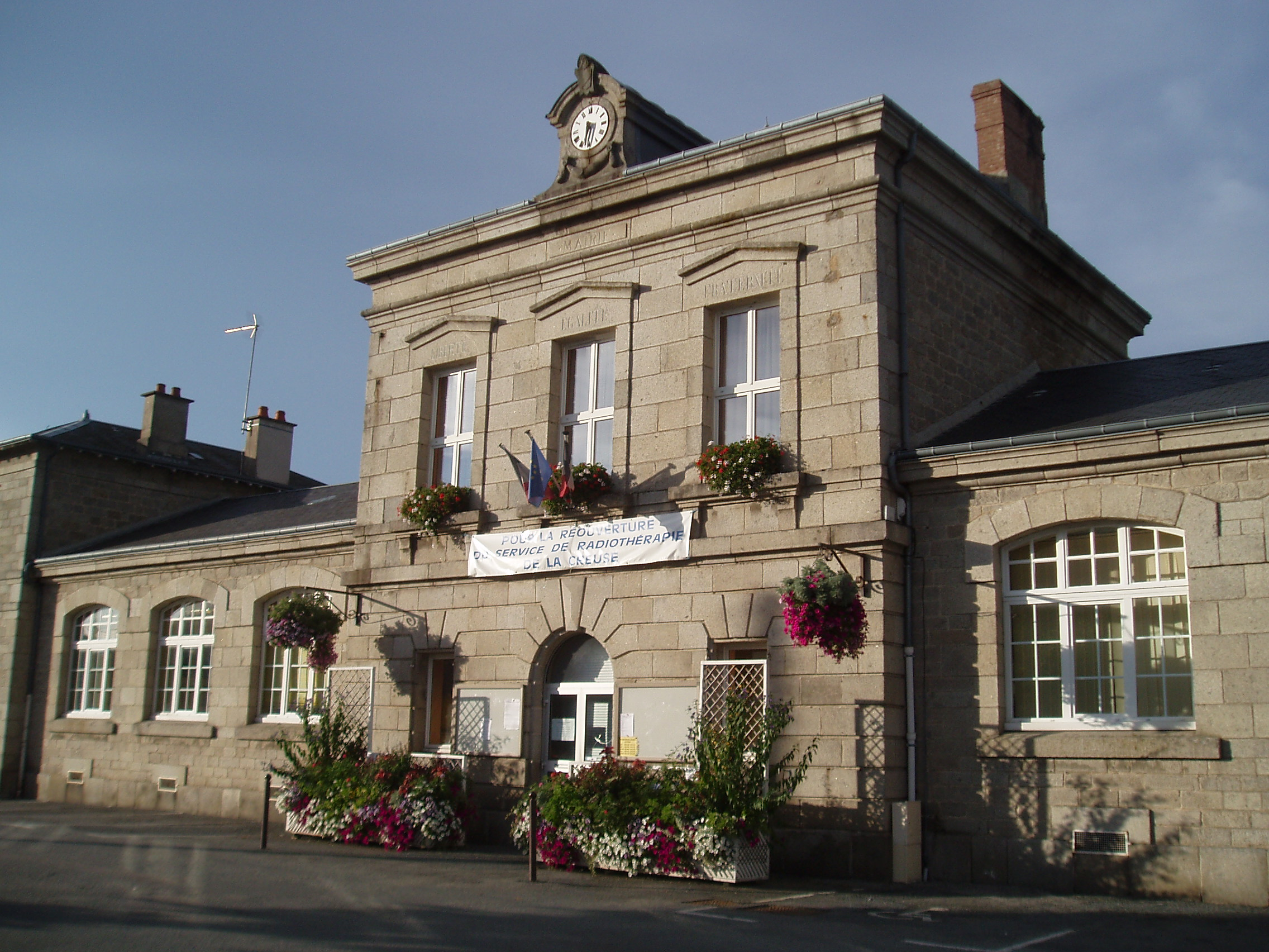 Mairie de Sainte-Feyre